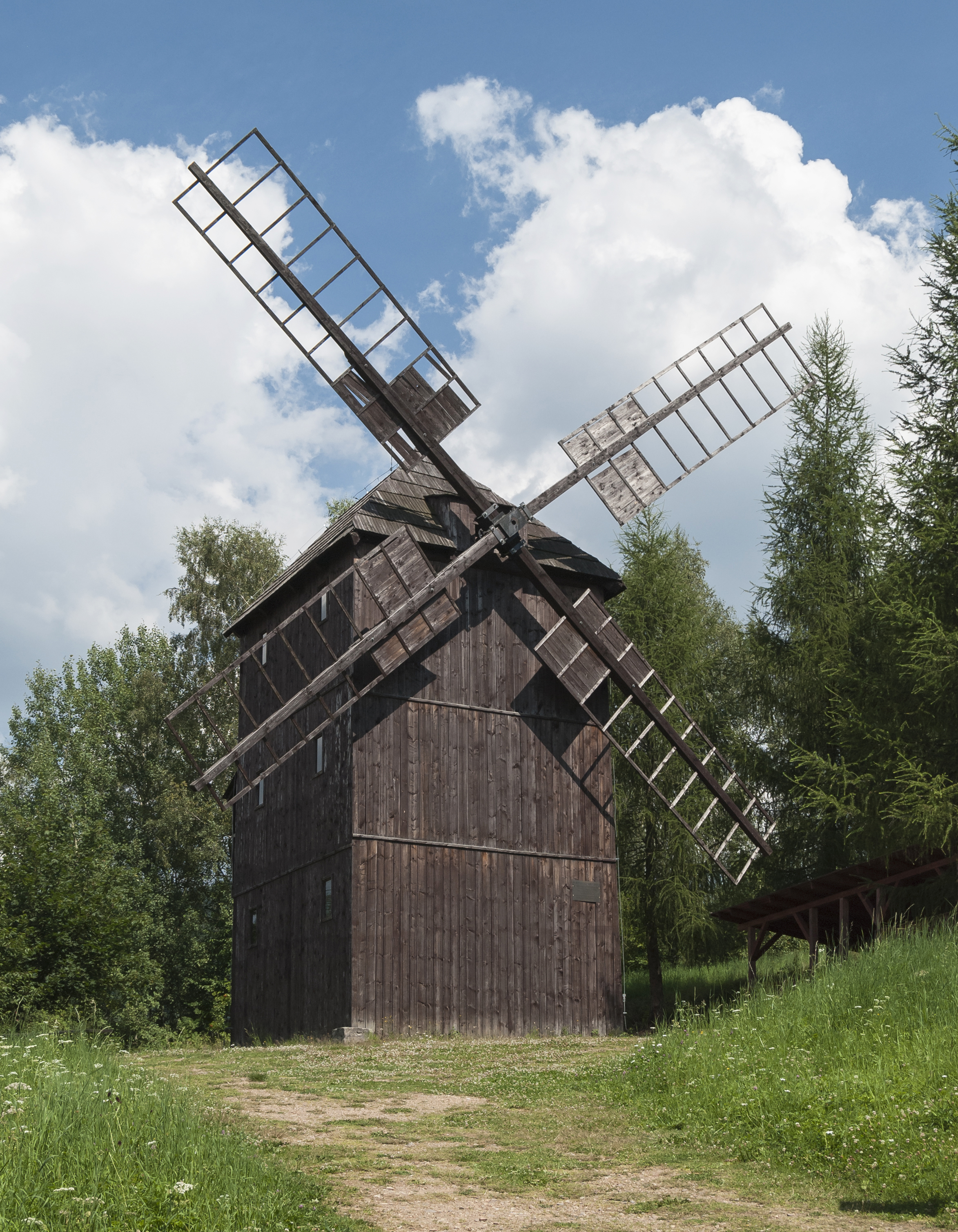 Post mill in Pstrążna